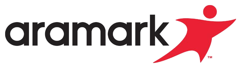 Aramark logo